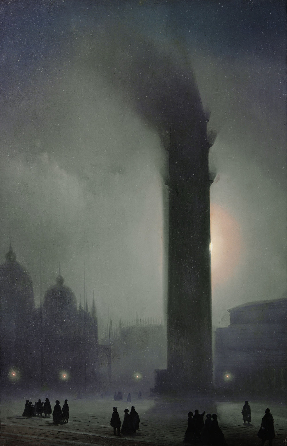 Ippolito Caffi (Italian 1809-1866), Nocturne with fog in Piazza San Marco. Oil on canvas, 63 x 41 cm.